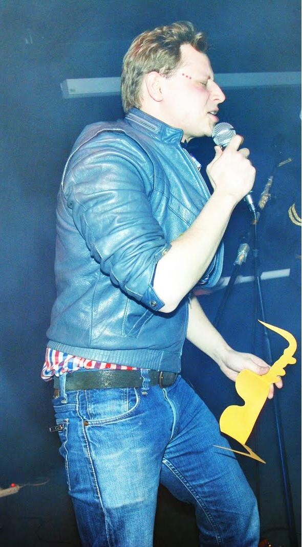 photo by Zabiello